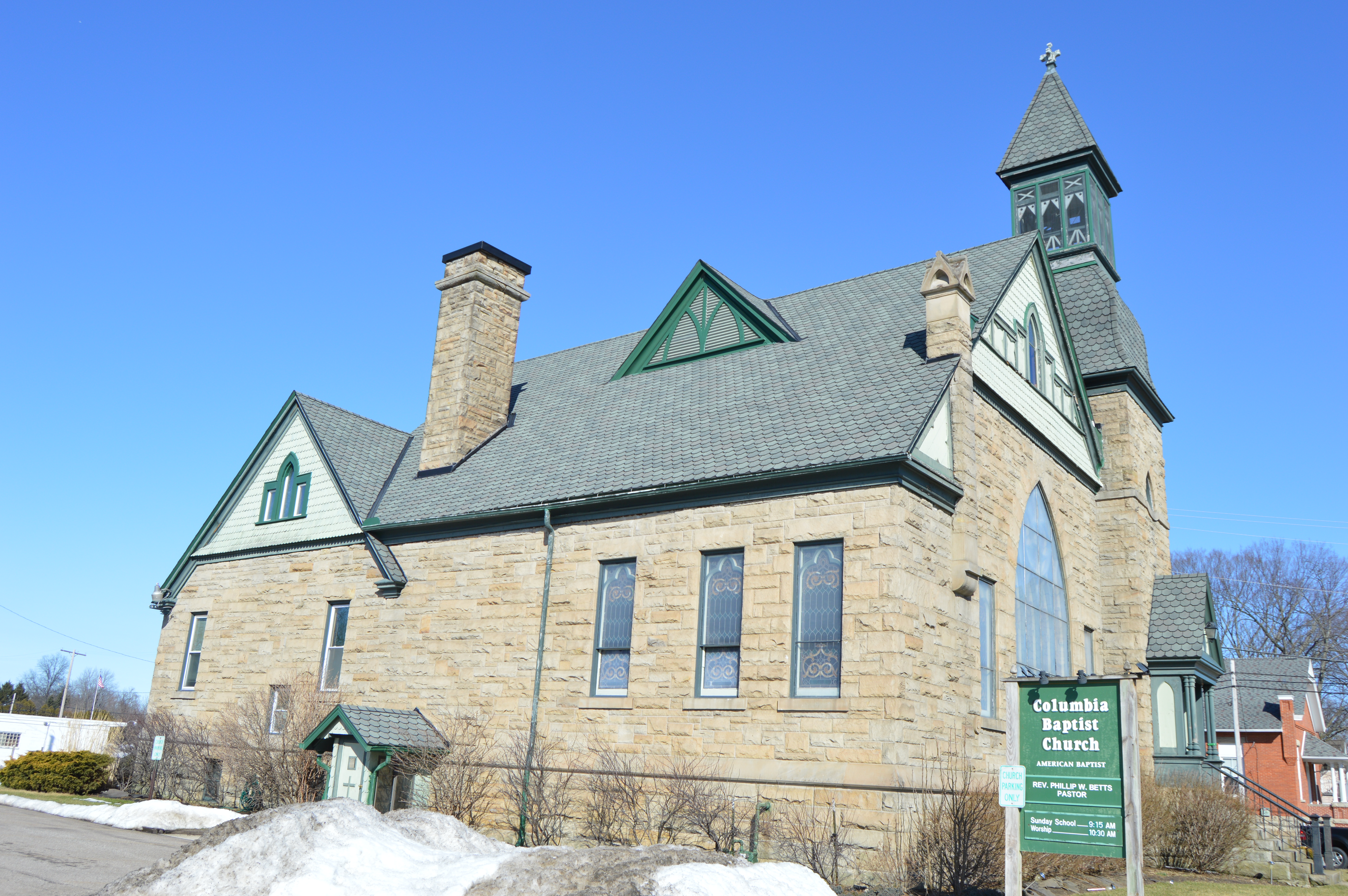 Western side and front of the Columbia Baptist Church, located at 25514 Royalton Road (State Route 82) in Columbia Township, Lorain County, Ohio, United States. Built in 1900, it is listed on the National Register of Historic Places.